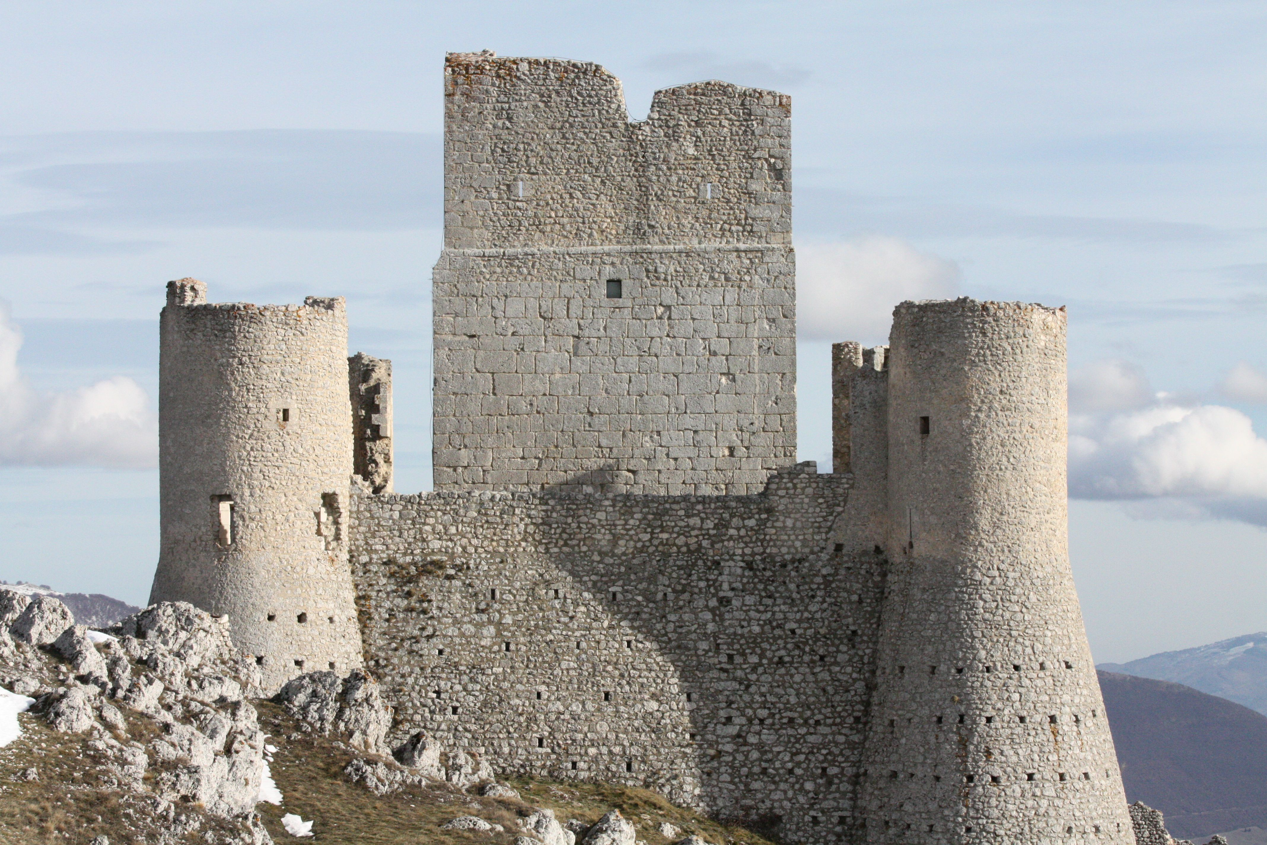 Castello di Rocca Calascio in provincia di Aquila (Abruzzo)